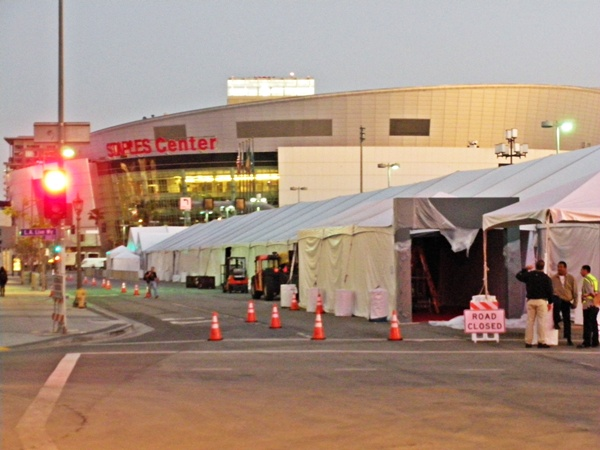 Red capet in the tent to Staples Center